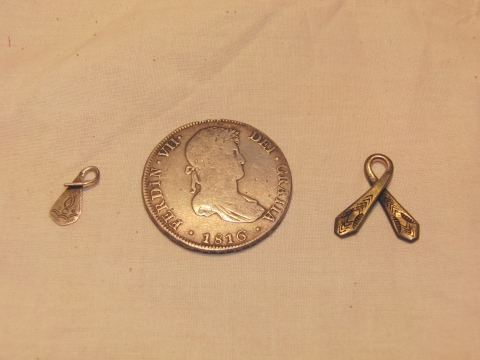 Fanery - an instrument of payment